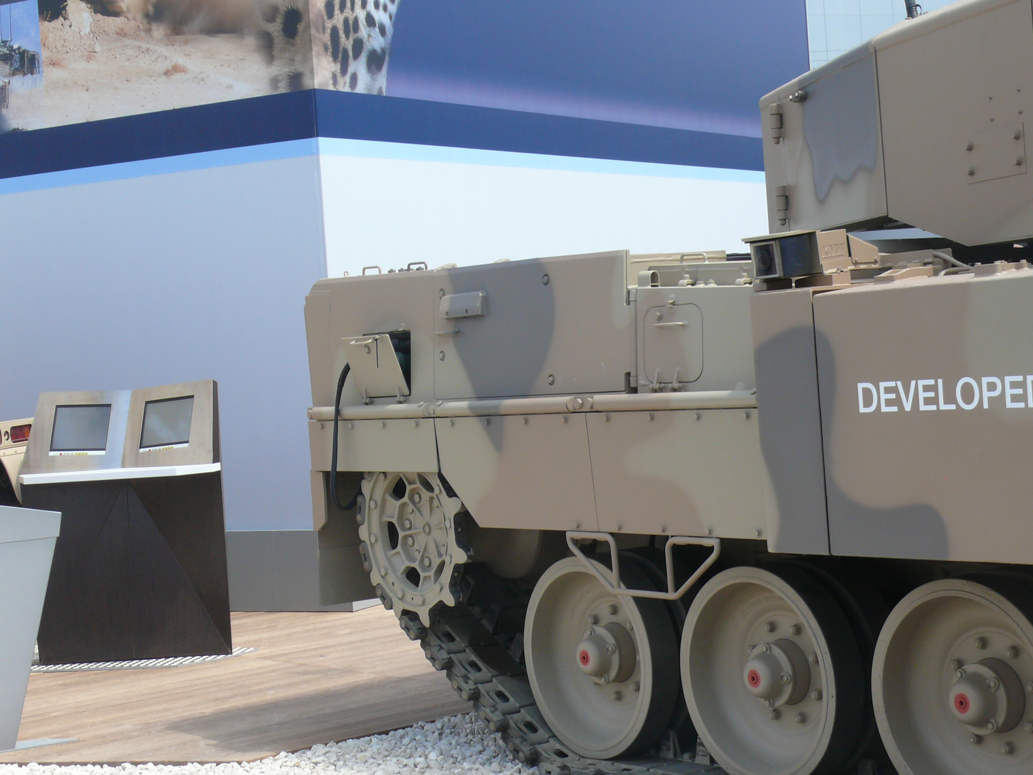 Leopard 2 A7